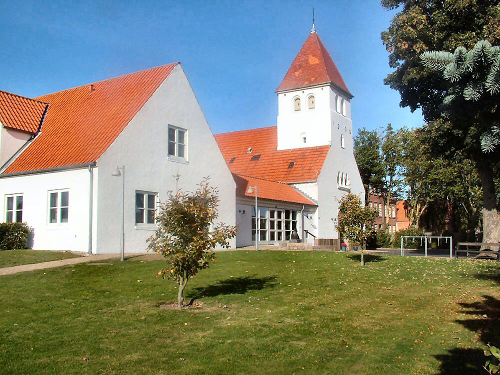 Bangsbo Kirke i Frederikshavn. (The danish church 'Bangsbo Kirke' situated in the danish town 'Frederikshavn' in the northern part of Jutland). Photo taken by Jørgen Larsen, 2005-10-14.